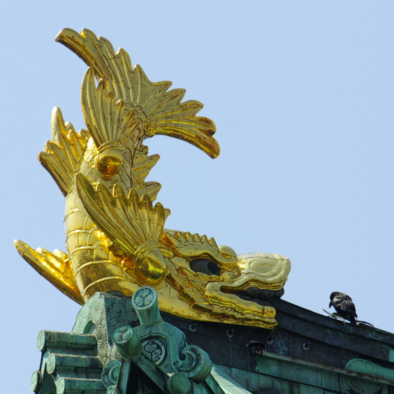 The crow which approaches the golden shachihoko on Nagoya castle